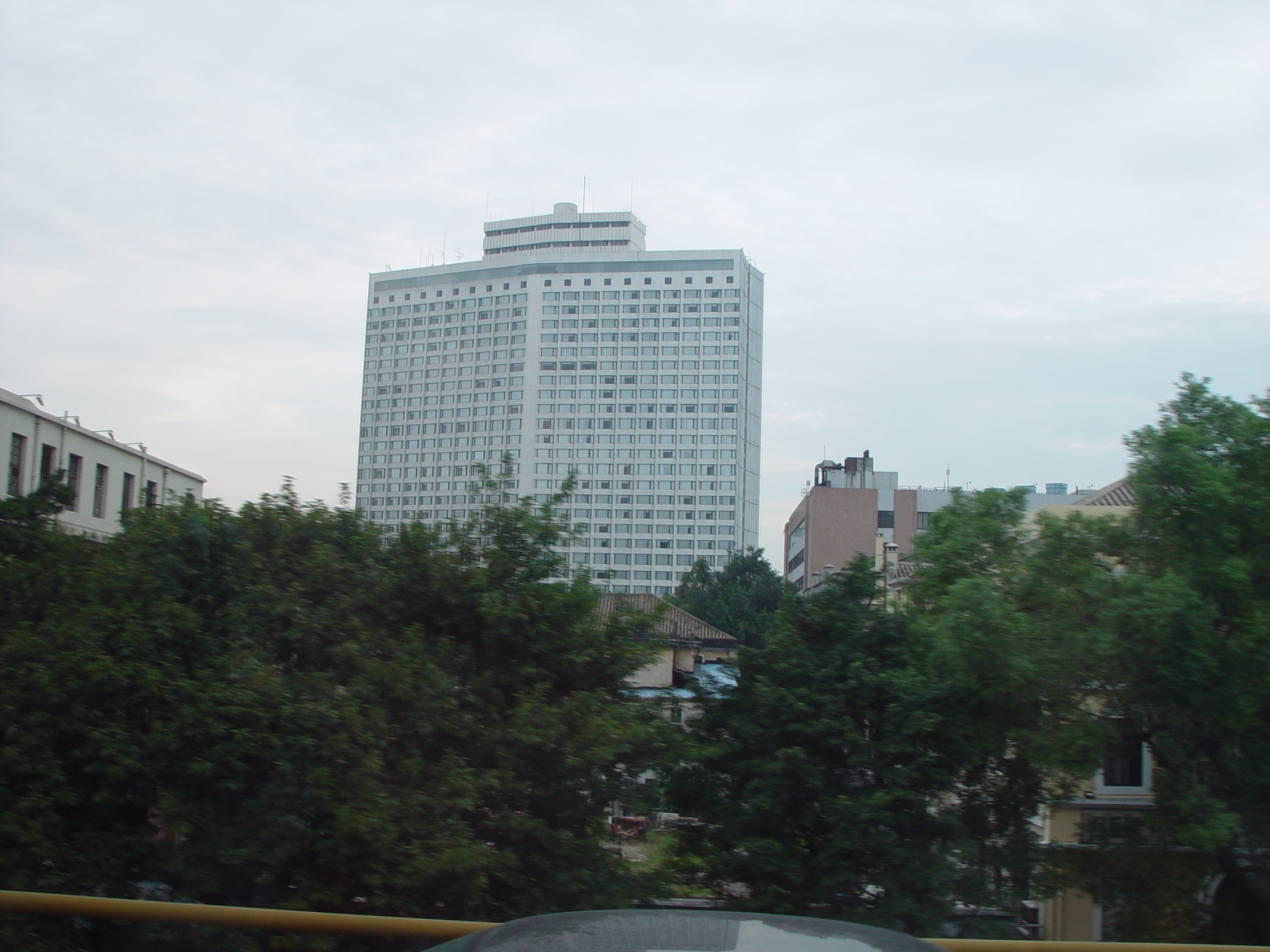 Shamian Island, White Swan Hotel.